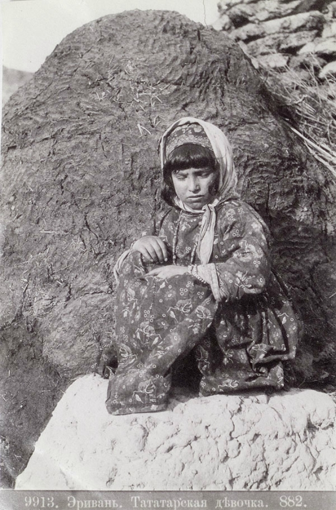 Tatar (i.e. Azeri) girl from Erivan.